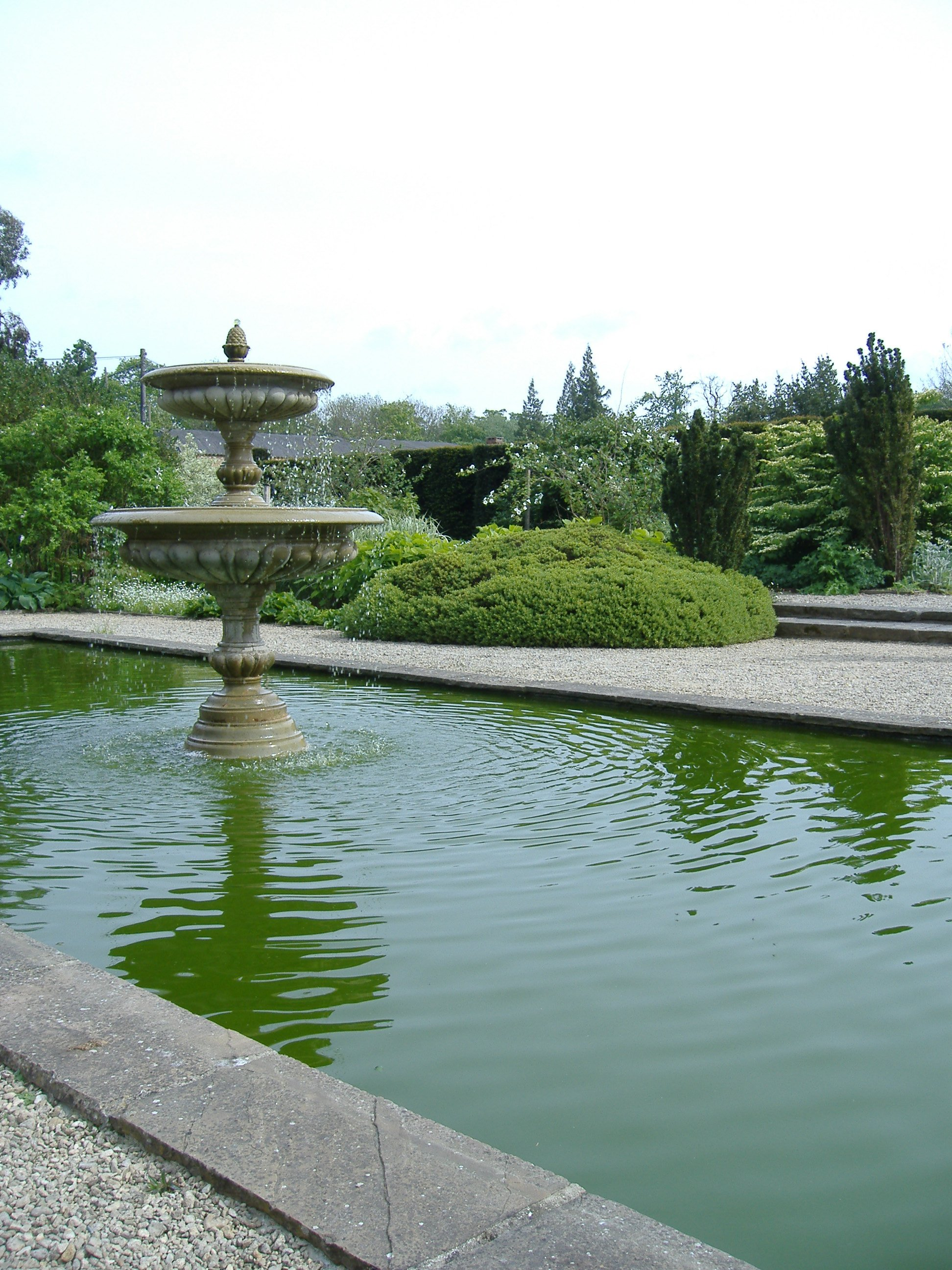 Loseley Park